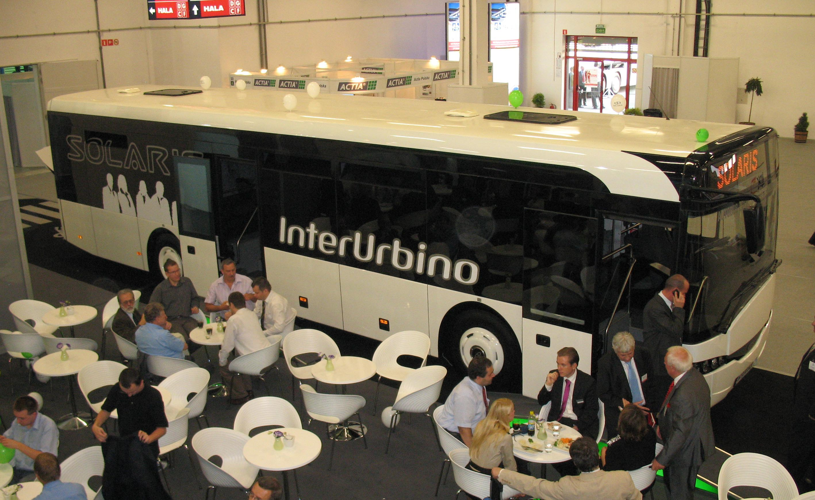 Solaris InterUrbino 12 intercity bus (prototype) in Kielce, Poland. Built 2009. Transexpo 2009.